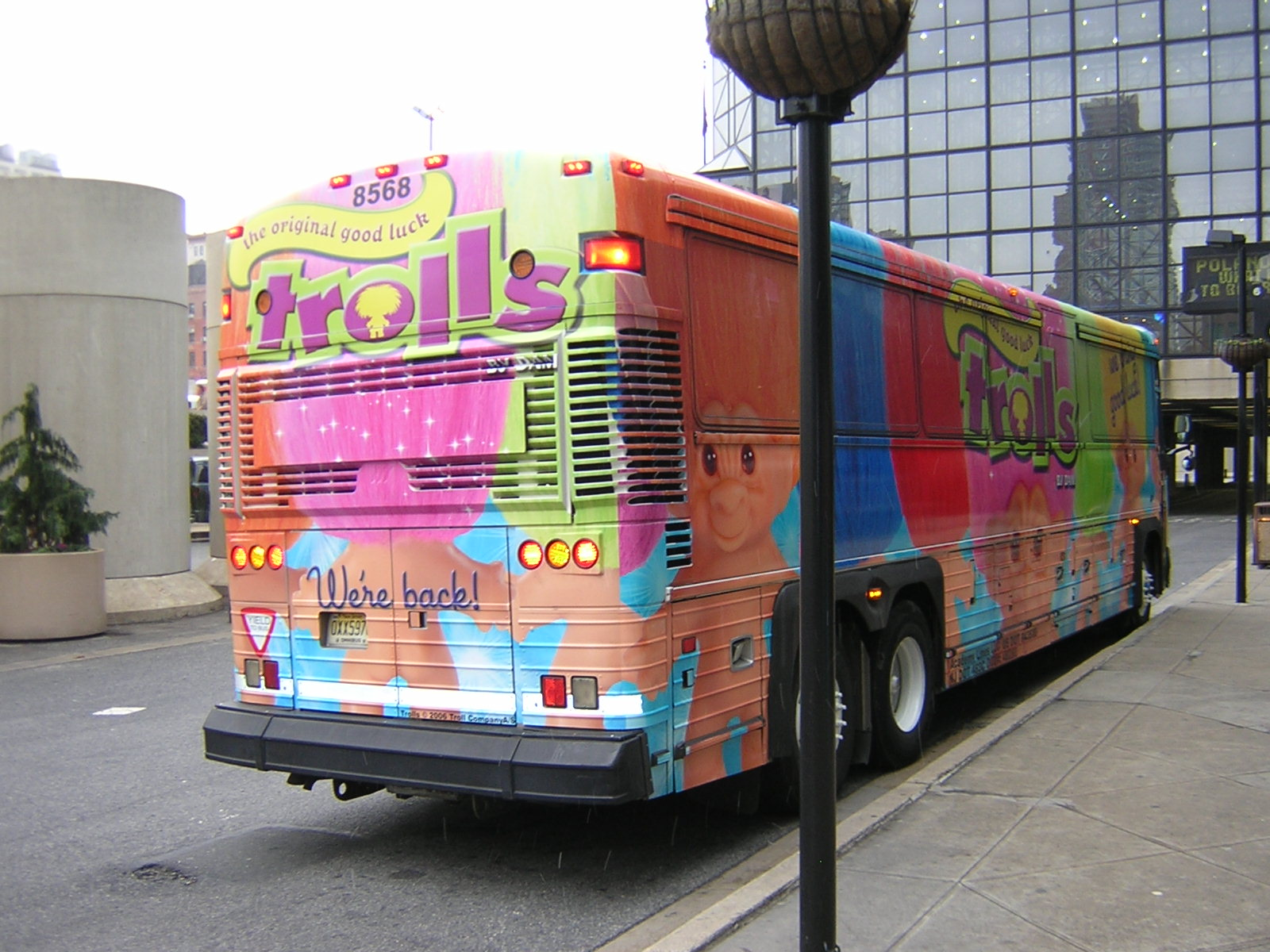 American International Toy Fair 2006. Bus decorated with Troll (toy) motif used for transport of attendees, at Javits Convention Center loading area